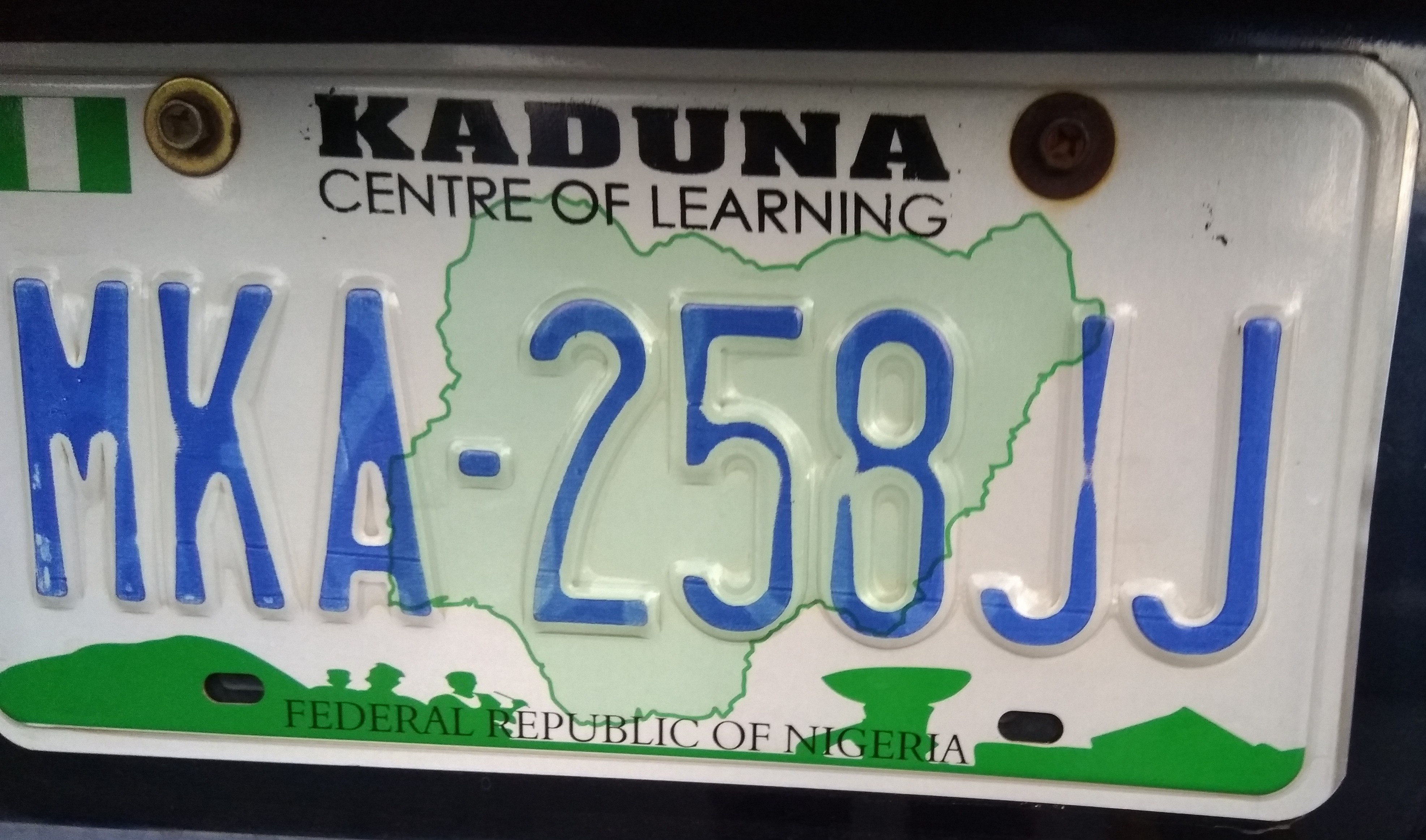 Nigerian number plate Kaduna State